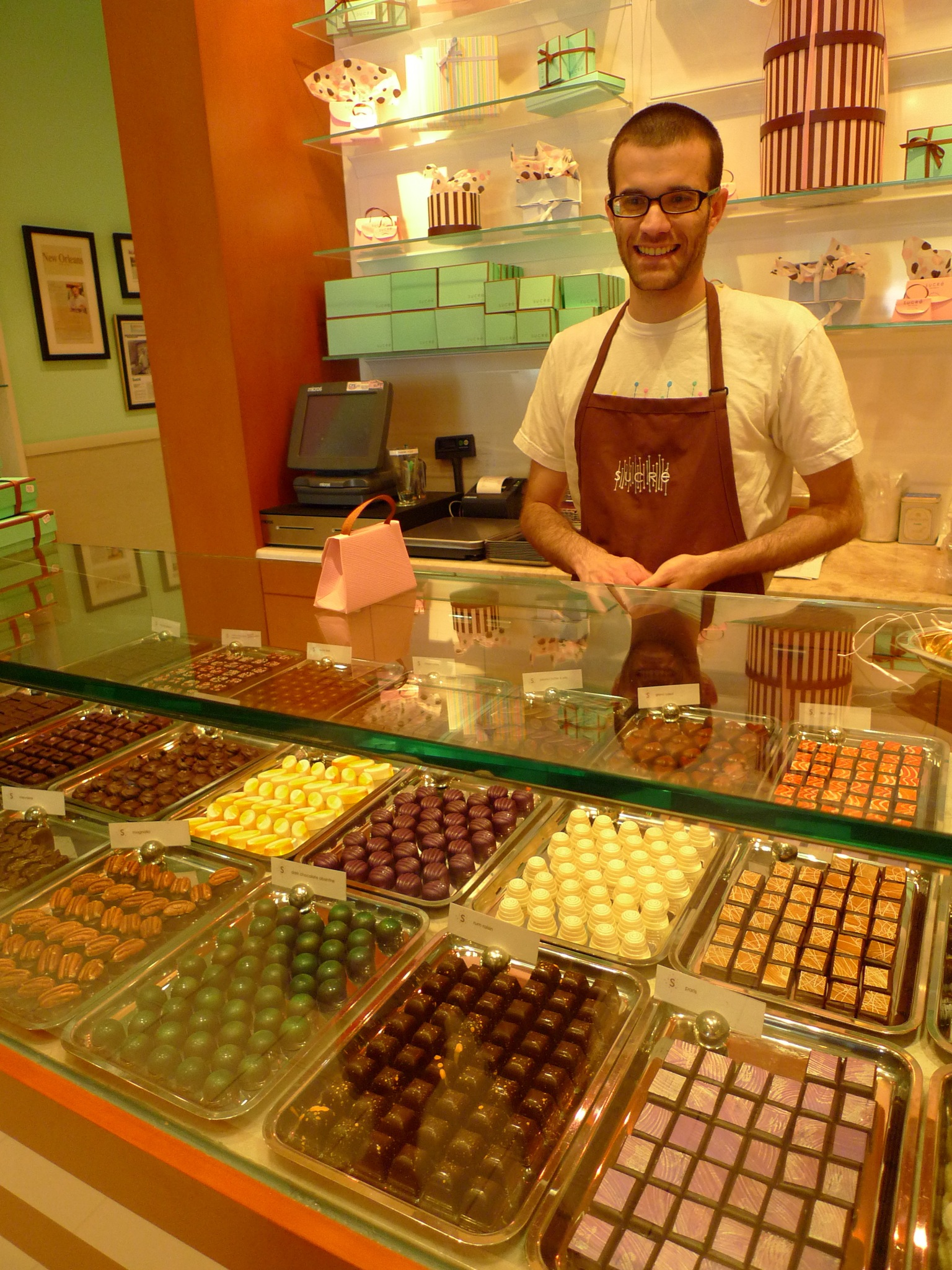 "Sucre" sweet shop, Magazine Street, New Orleans. Chocolate counter.